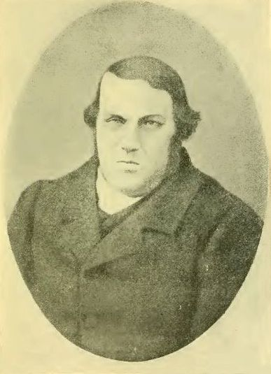 Painting of Pierre François "Louis" Lévêque de Vilmorin (1816-1860)